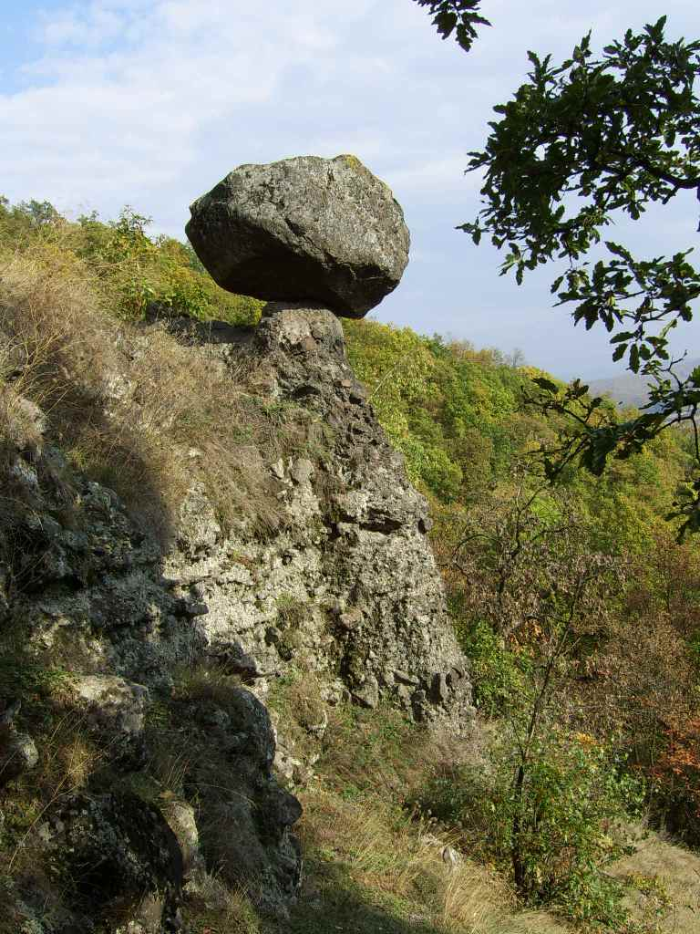 The mushroom stone: cap (andesite volcanic bomb) and stem (volcanic breccia). National Nature Reserve (Národná prírodná rezervácia; NPR) Boky; Slovakia